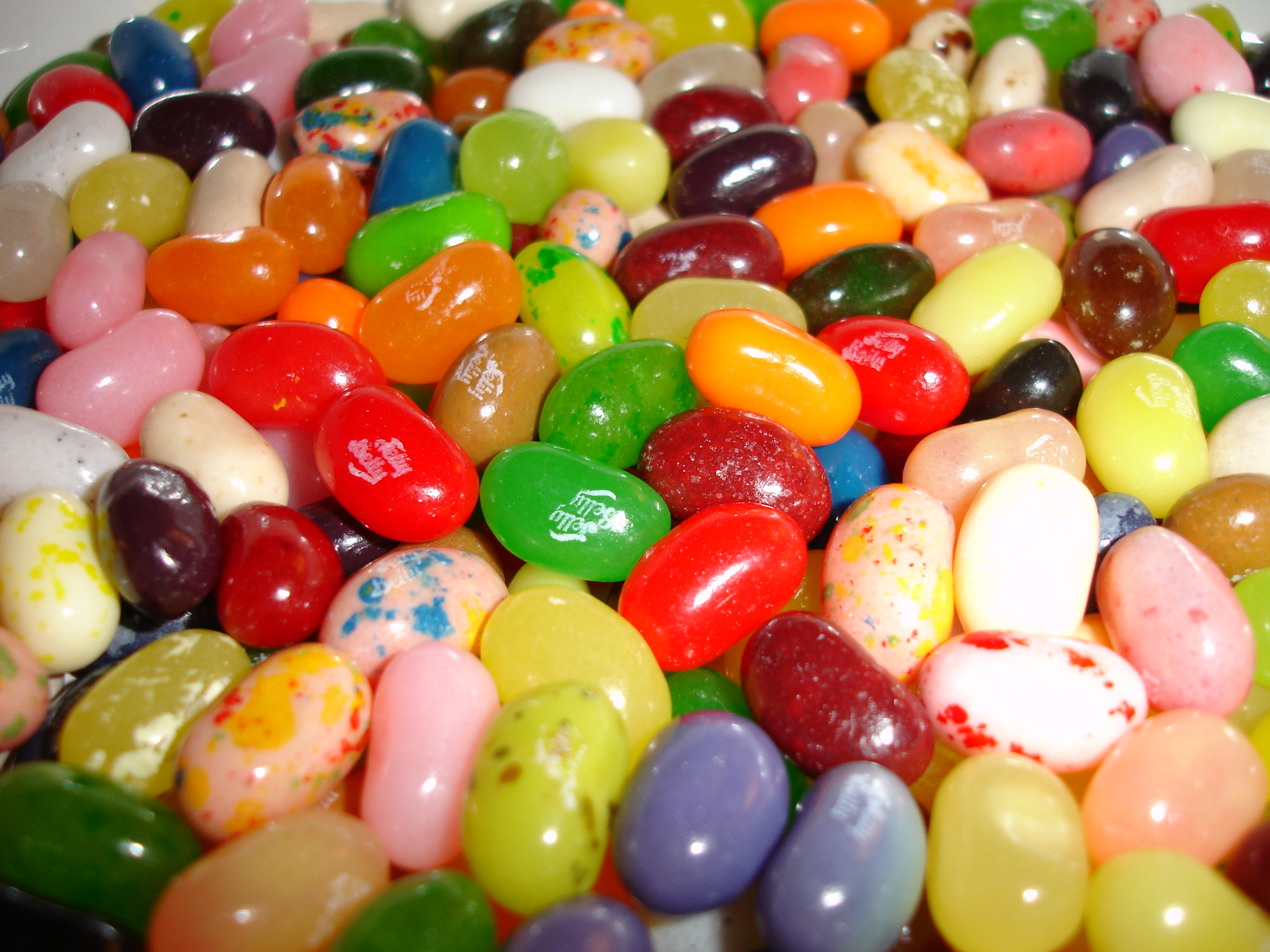 A bunch of Jelly Belly jelly beans resting comfortably in a dish. Yummy. They are of the 49-flavor assortment. Photographed by Brandon Dilbeck on April 2, 2006. See also Image:EndlessSeaOfJellyBeans.jpg Image:JellyBellyBeans.jpg Image:RedJellyBean.jpg